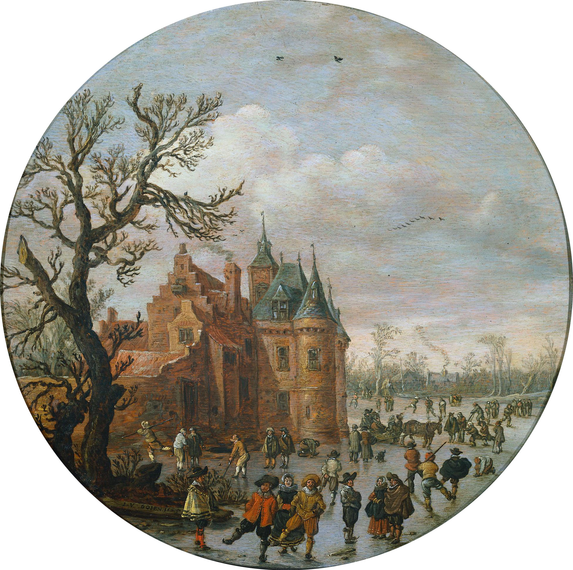 Allegory of winter. Pendant of File:Goyen 1625 Summer.jpg.